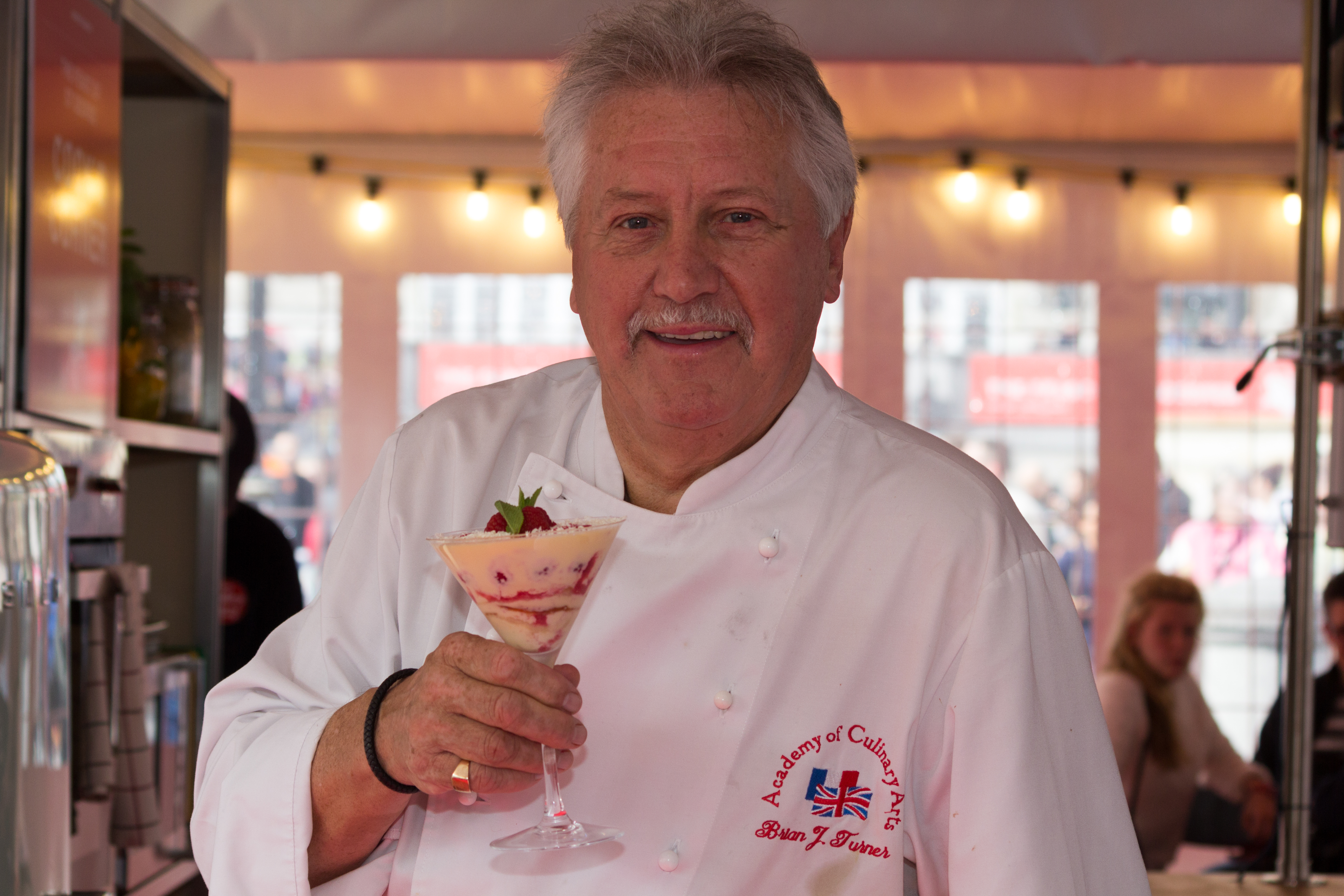 Brian Turner demonstrating at Cook's corner at Feast of St George 2015 in Trafalgar Square.